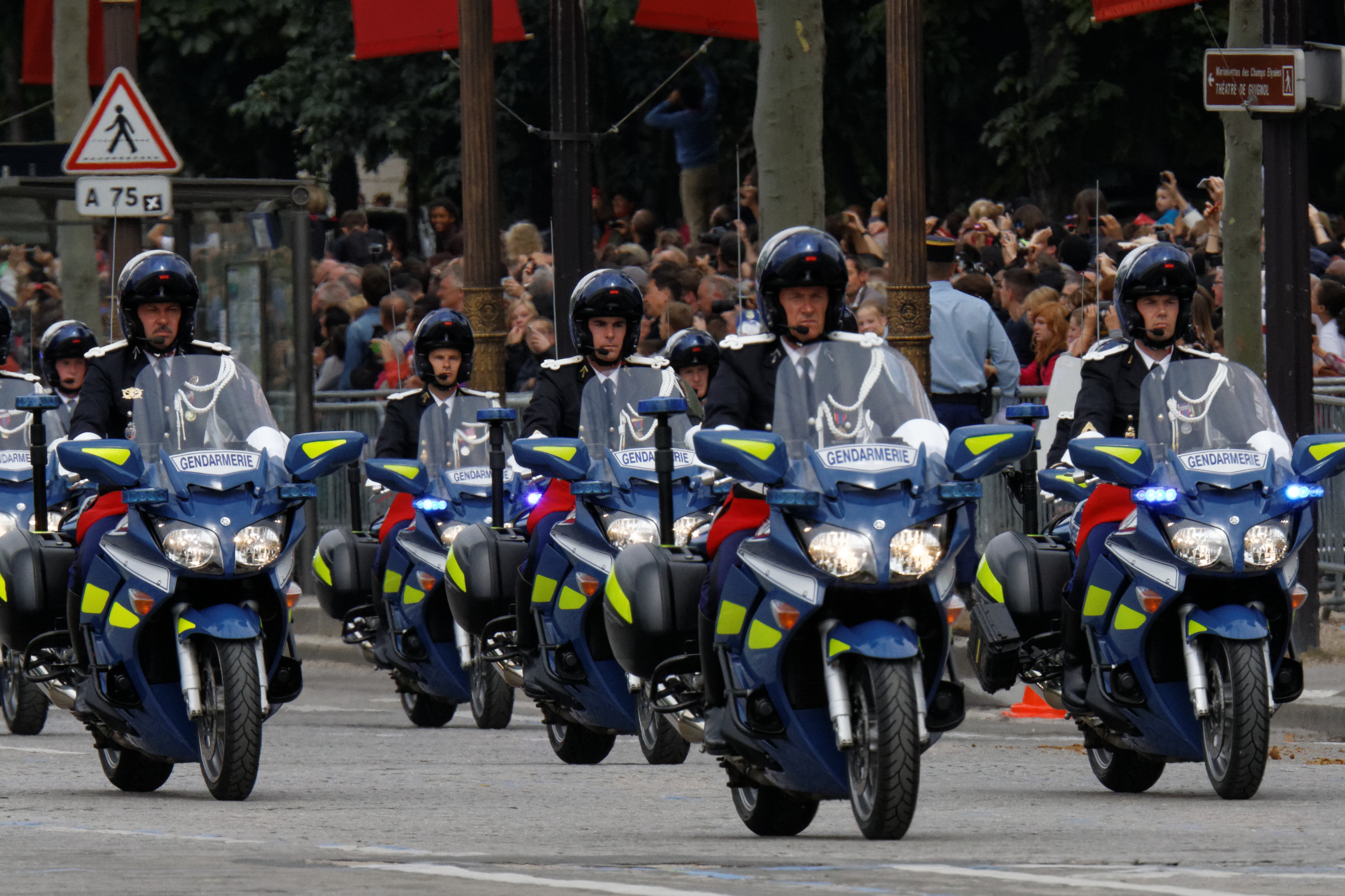 Bastille Day 2014 military parade on the Champs-Élysées in Paris. Motorised troops.